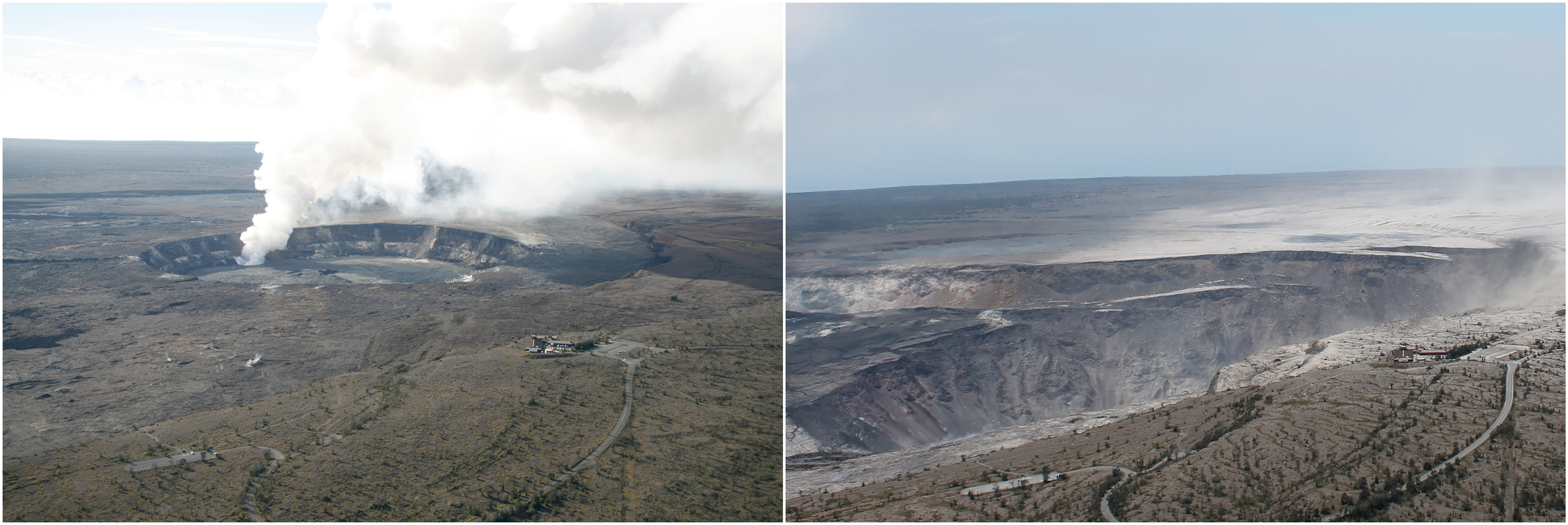 Description from US Geological Survey: It has proven difficult to exactly match past and present views of Kīlauea's summit to show the dramatic changes in the volcanic landscape, but here's our latest attempt. At left is a photo taken on November 28, 2008, with a distinct gas plume rising from the vent that had opened within Halema‘uma‘u about eight months earlier. At right is a photo taken on August 1, 2018, to approximate the 2008 view for comparison.